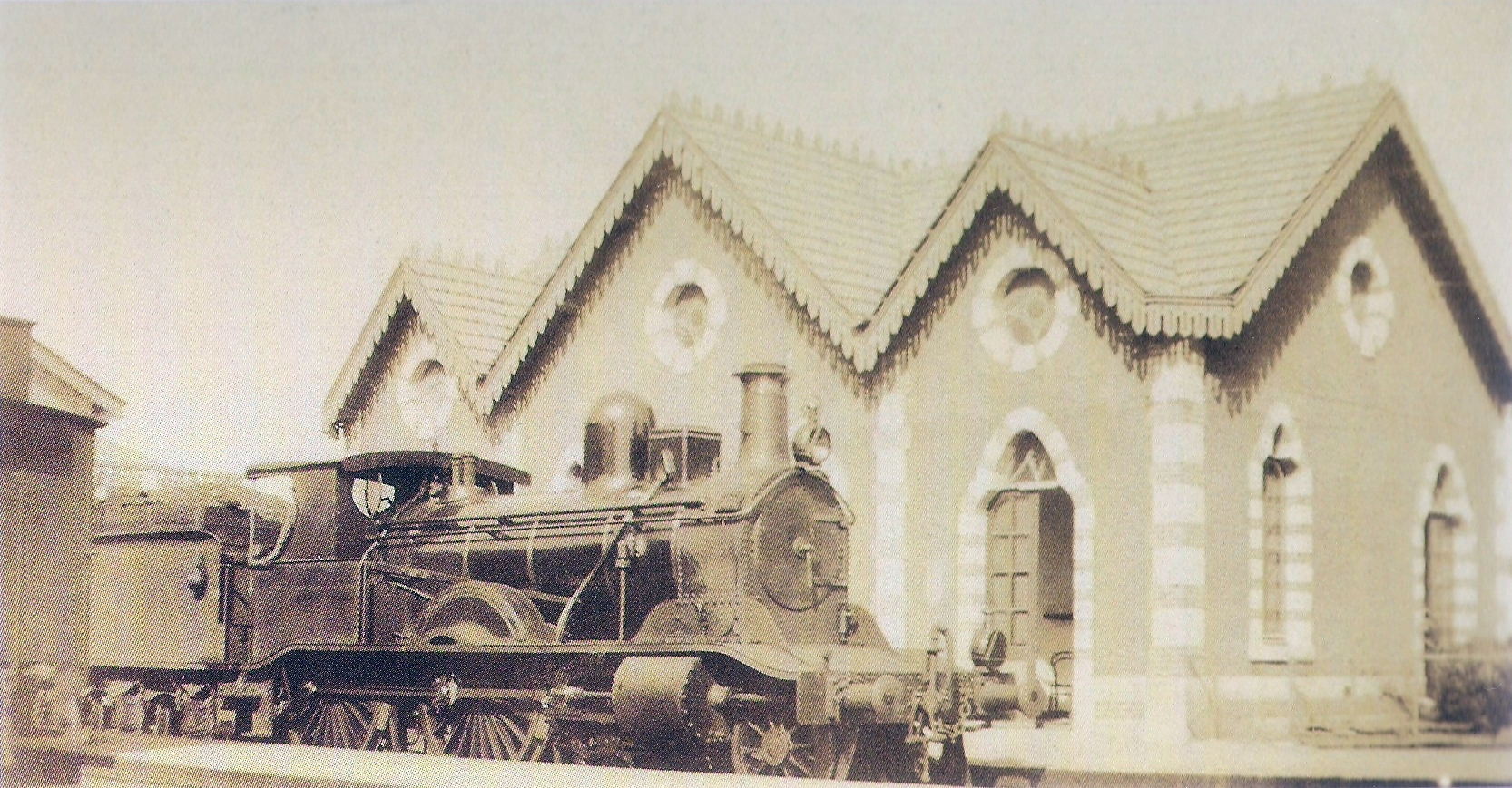 Locomotive 96 of the Companhia Real dos Caminhos de Ferro Portugueses (Royal Company of the Portuguese Railways), at the old Sintra Railway Station, in Portugal.